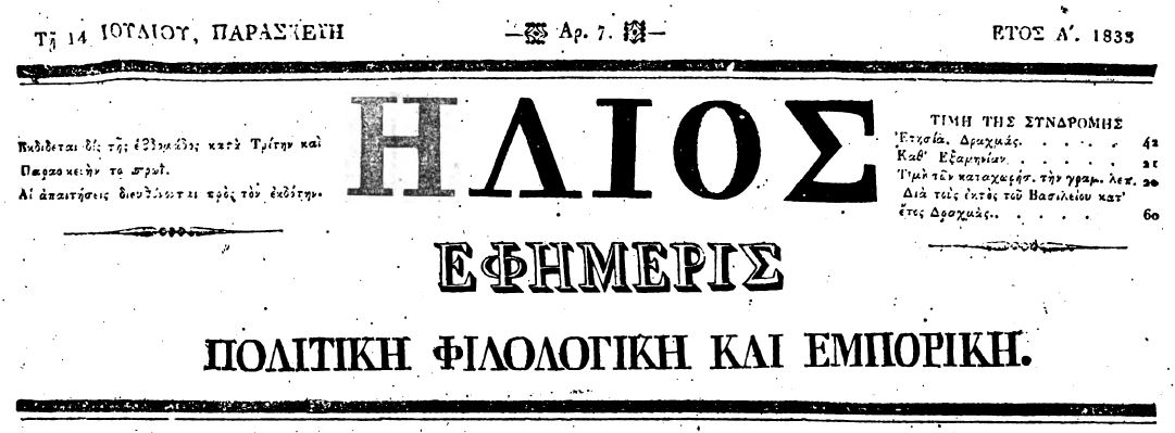 Helios, Political, Philological and Commercial Newspaper, issue 7, newspaper title, 14 July 1833